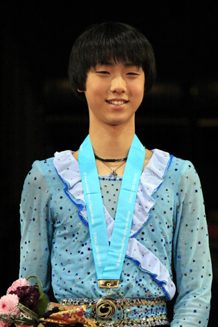 Yuzuru Hanyu(1st) at the 2009-2010 Junior Grand Prix Final.